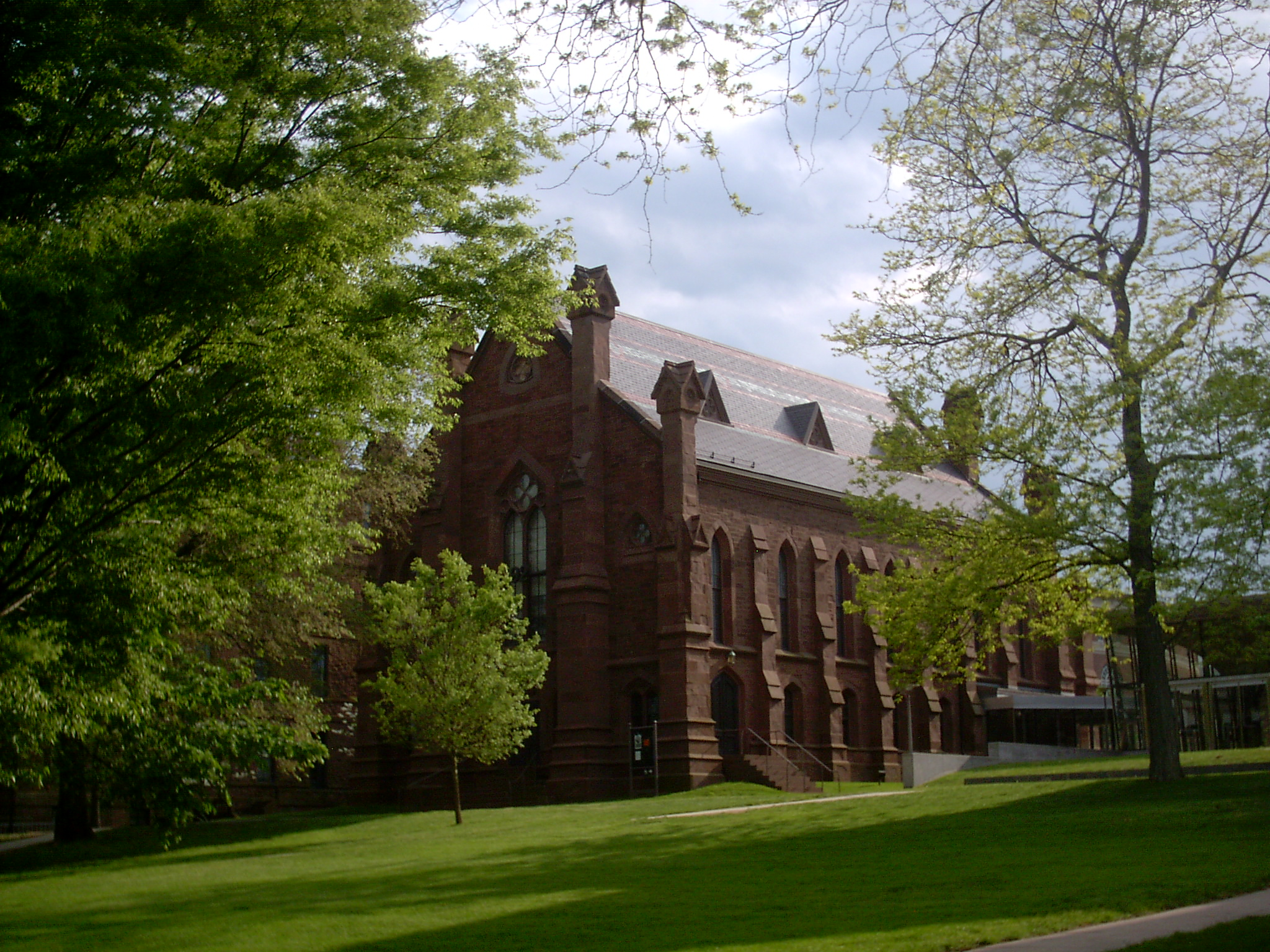 '92 Theater on the campus of Wesleyan University